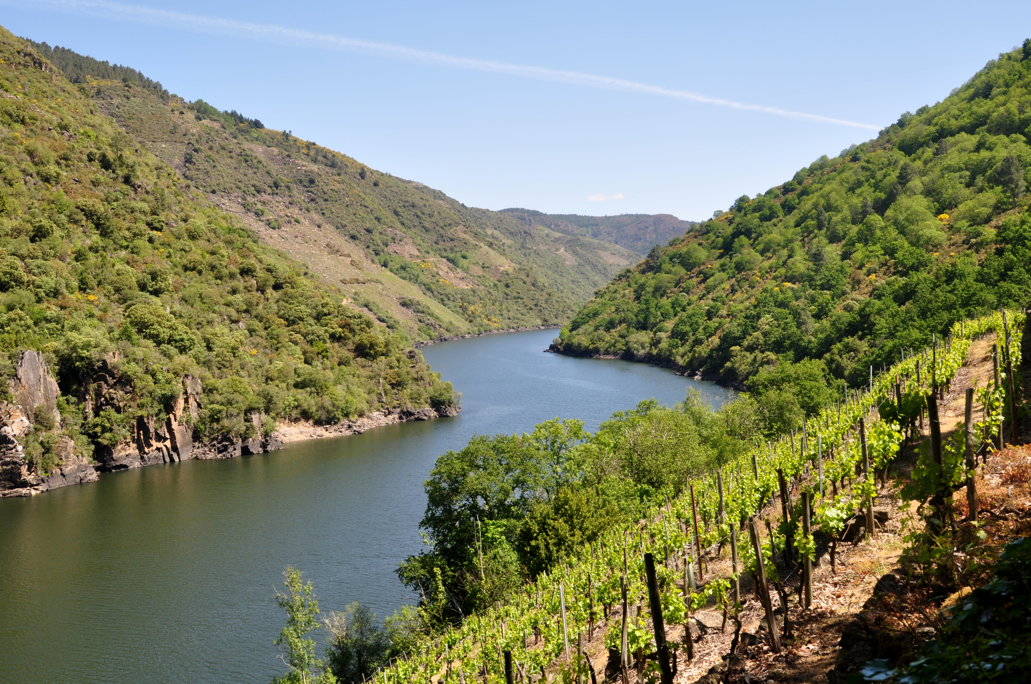 This is a photography of a Special Area of Conservation in Spain with the ID: ES1120014. Natura2000 entry, EEA entry